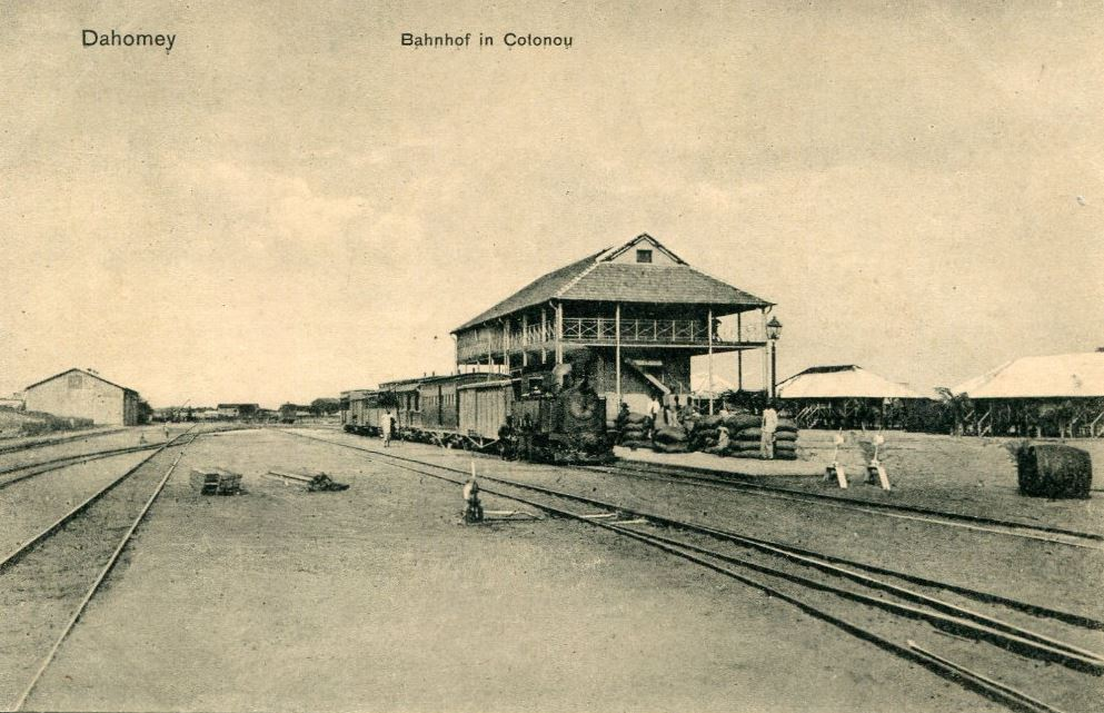 Railway station in Cotonou, Dahomey (now Benin)